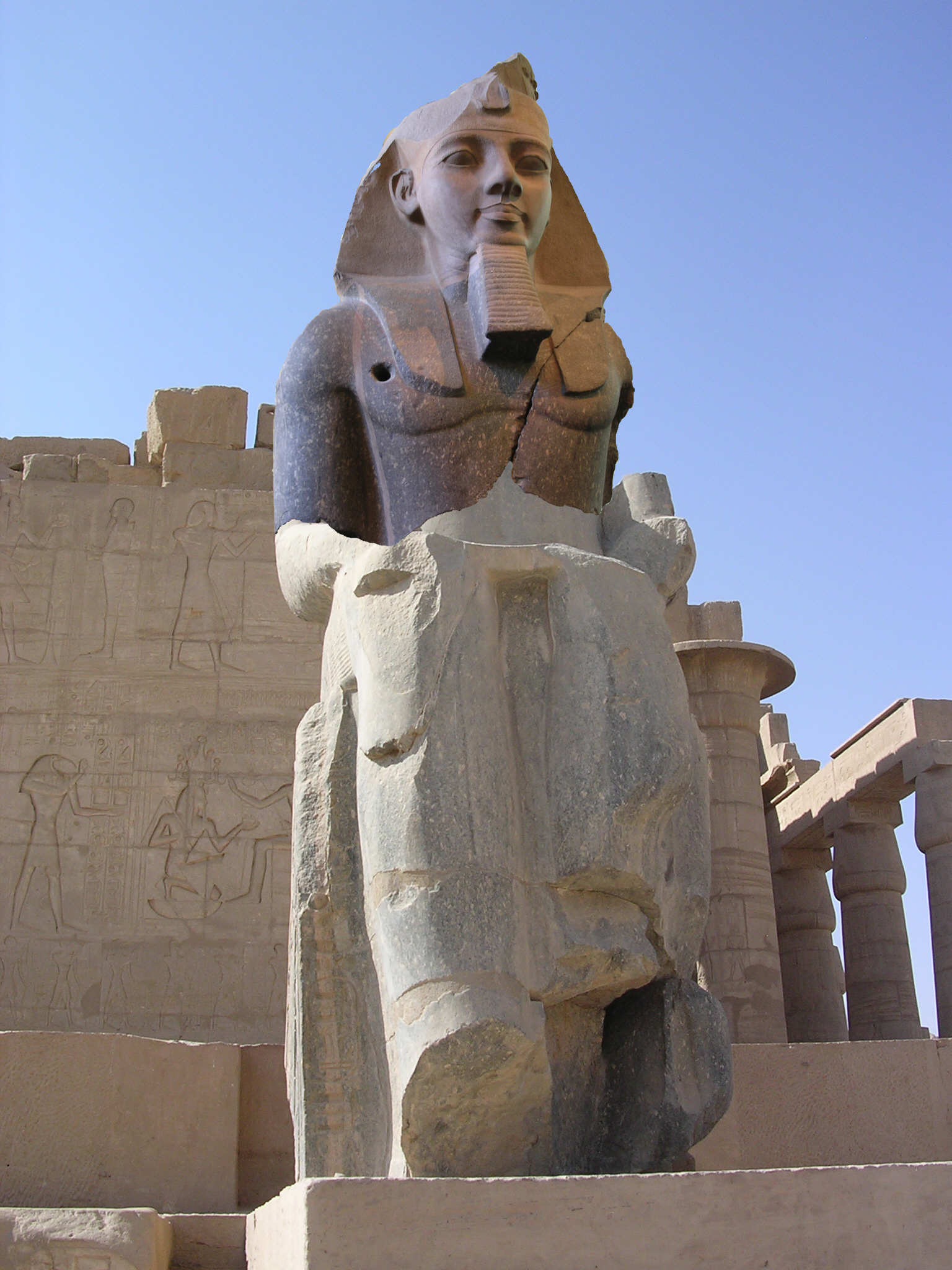 The colossus of Ramesses II at Thebes, digitally restored with the upper part of the statue recovered by Belzoni and now in the British Museum. The upper part of the bust is of course cleaner and this explains the colour difference. Fragmenting around the break explains the small number of missing sections. Photographed a week part in 2004 and digitally combined by Guy de la Bedoyere